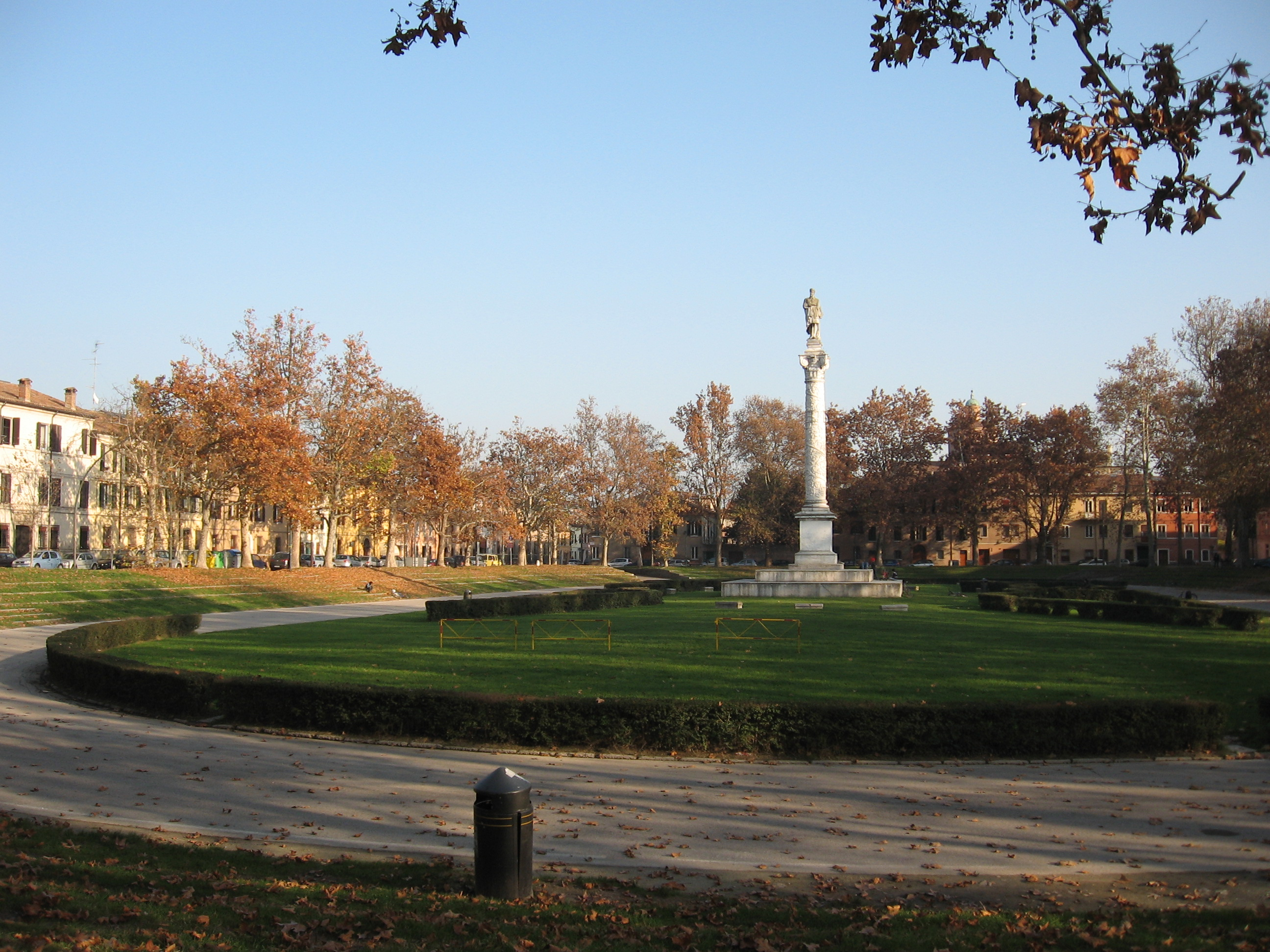 Piazza Ariostea (Ariosto's square)